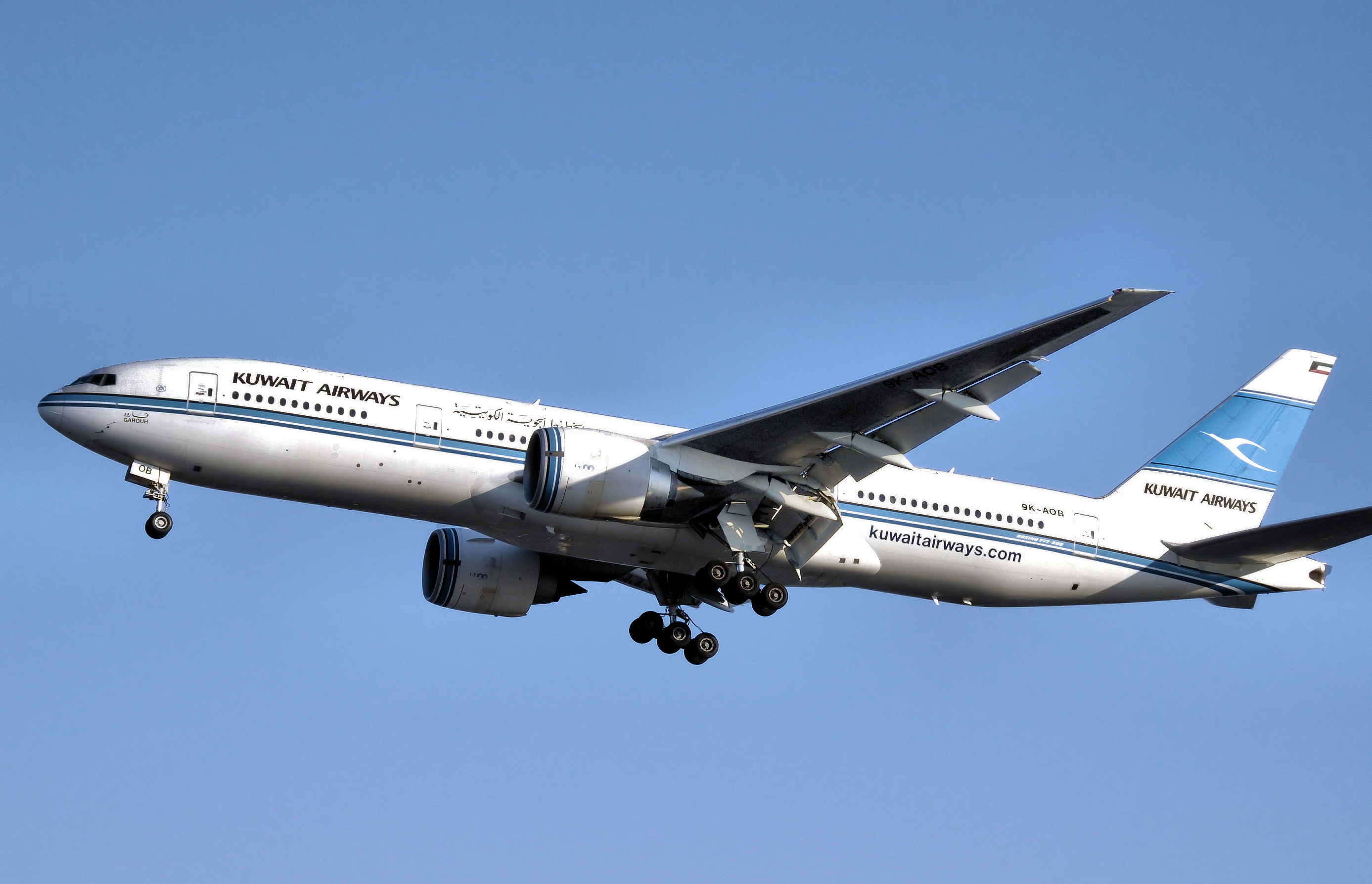 Kuwait Airways Boeing 777-200ER (9K-AOB) landing at London Heathrow Airport, England.